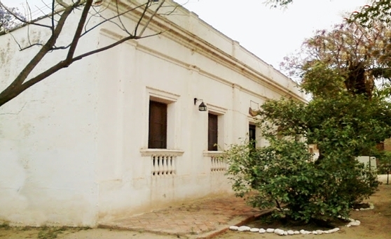 Familia Velardez